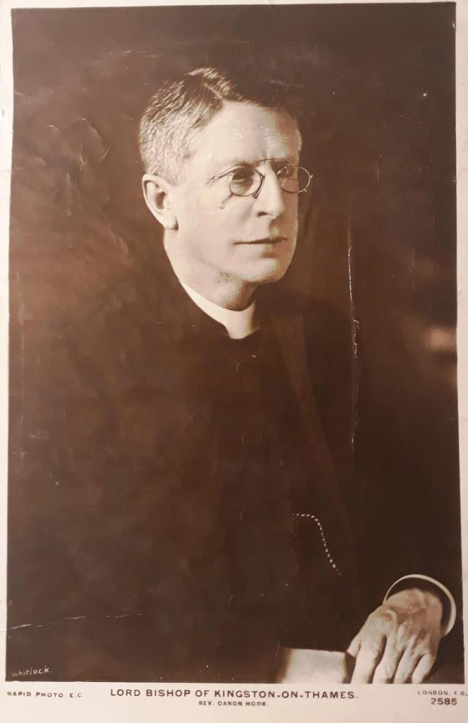 Cecil Hook (1844-1938), first Anglican Bishop of Kingston-on-Thames (1905-1915)